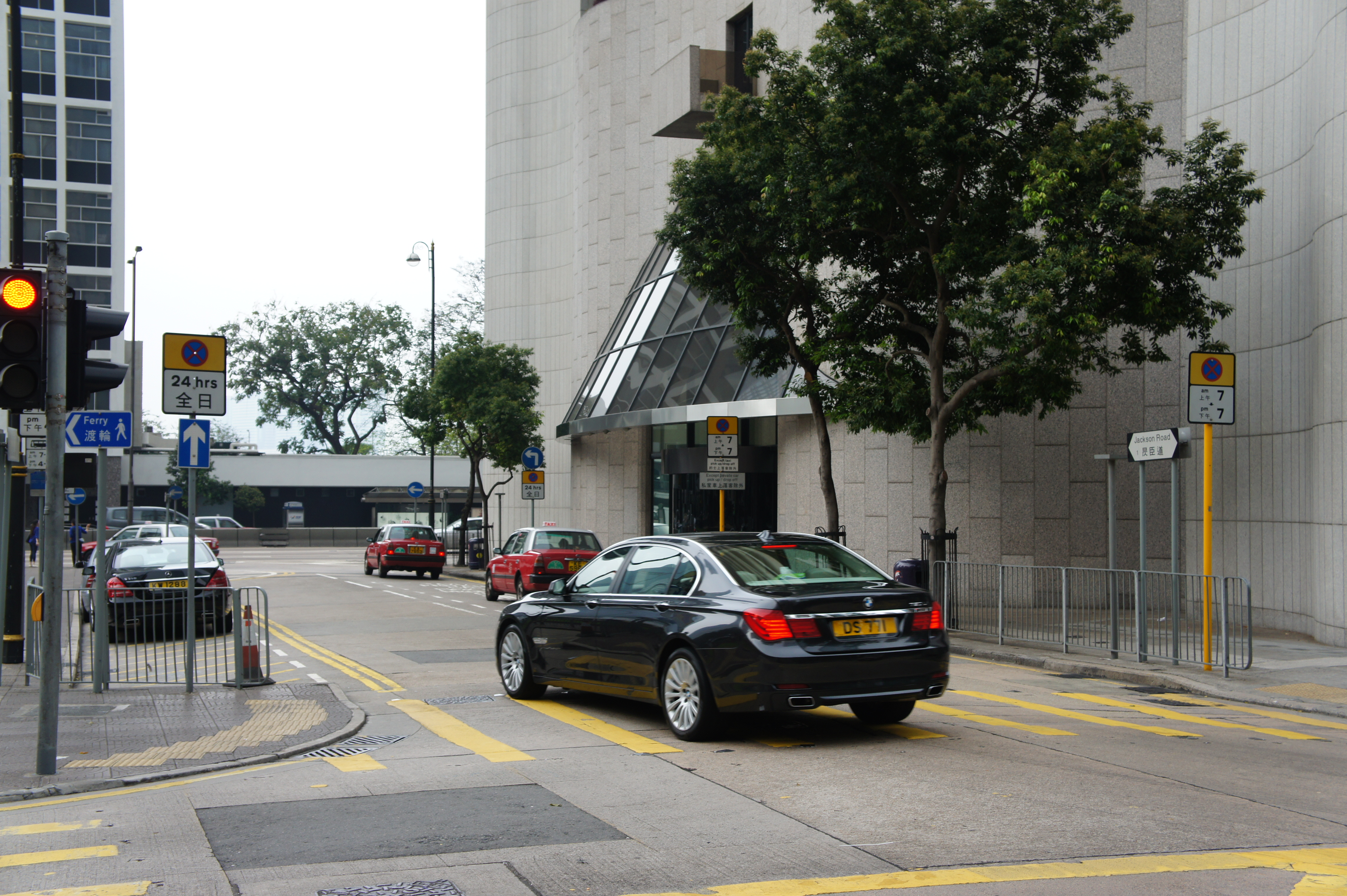 Jackson Road, Central, Hong Kong. The Hong Kong Club Building is on the right.